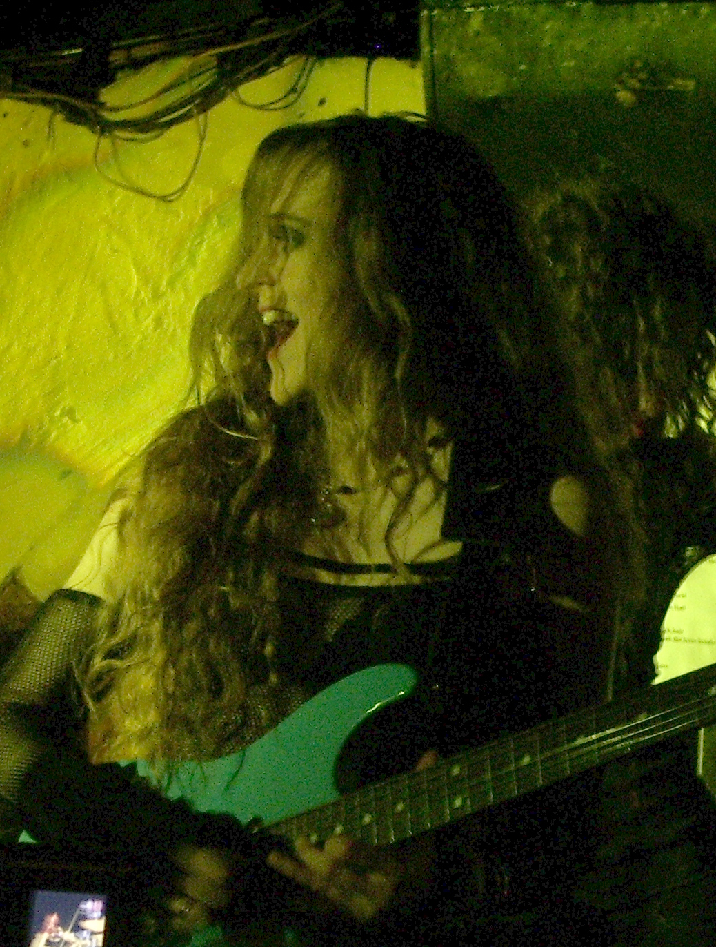 Lori Linstruth performing live with Stream Of Passion at The Borderline in London, 29th January 2006